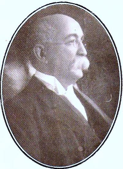 Photograph of Olegario Molina (once Governor of Yucatna) taken from public files from the NYC Library. Scanned by Yodigo